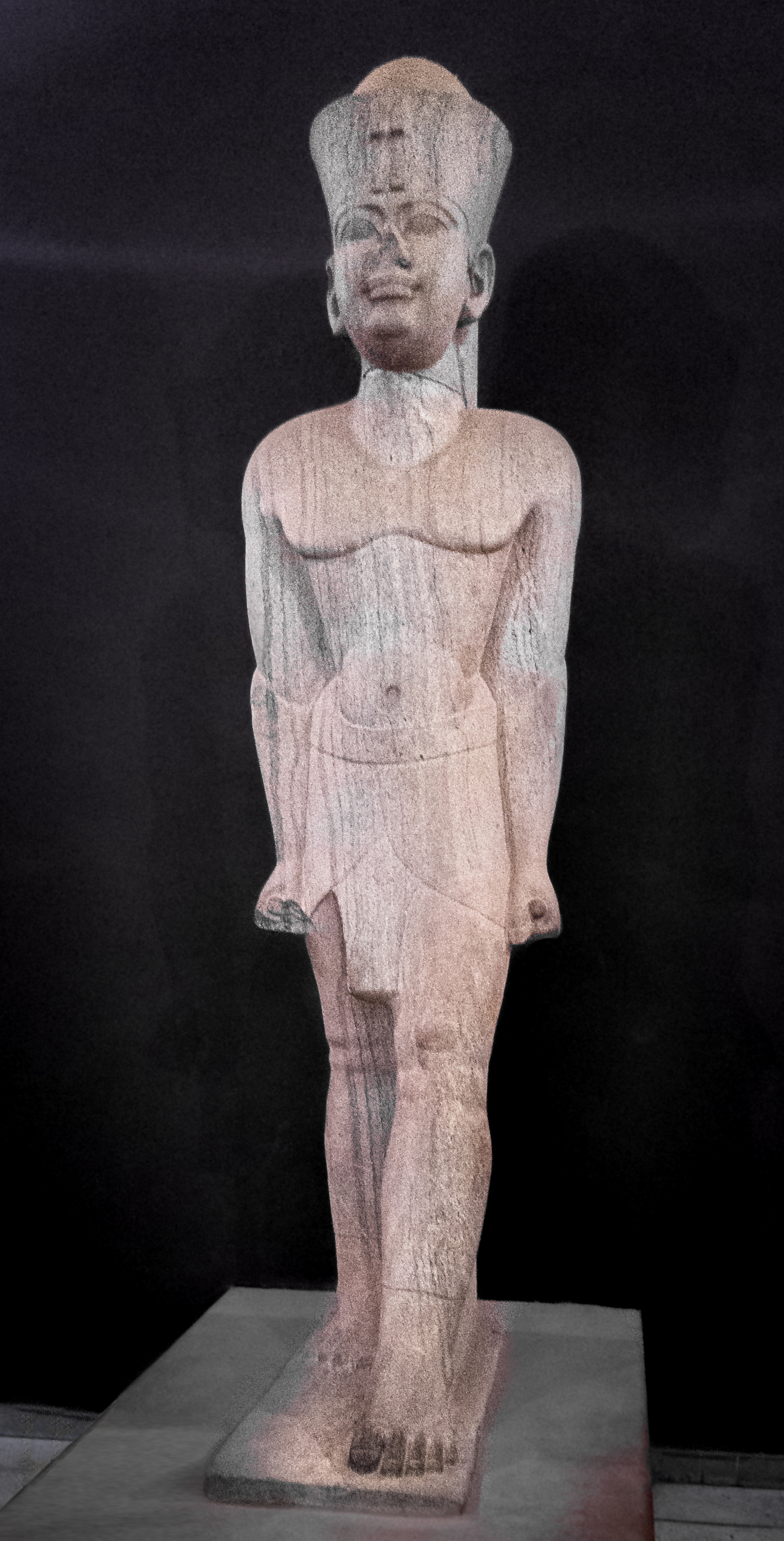 Atlanersa statue (cropped)